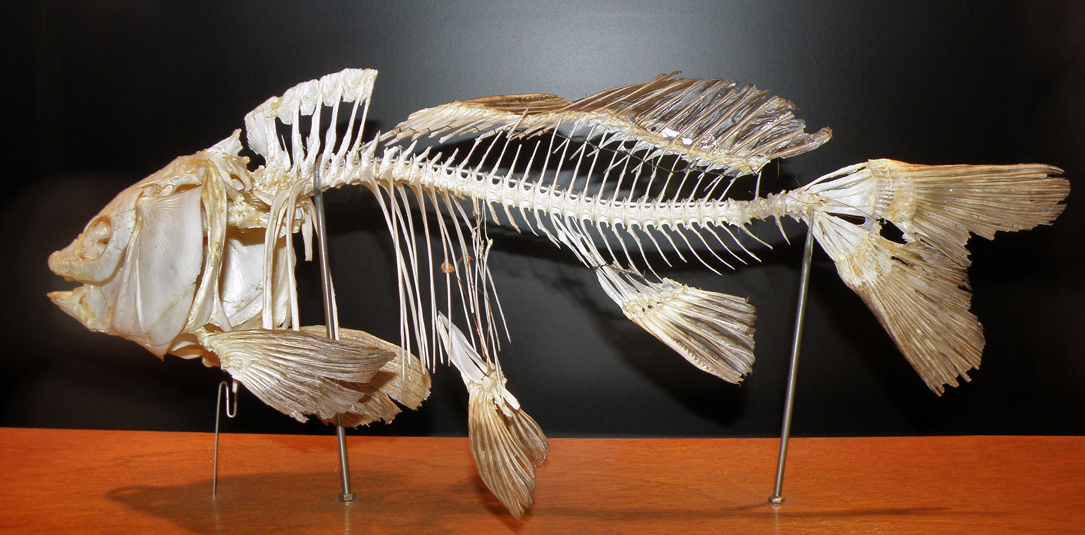 Common carp (Cyprinus carpio)